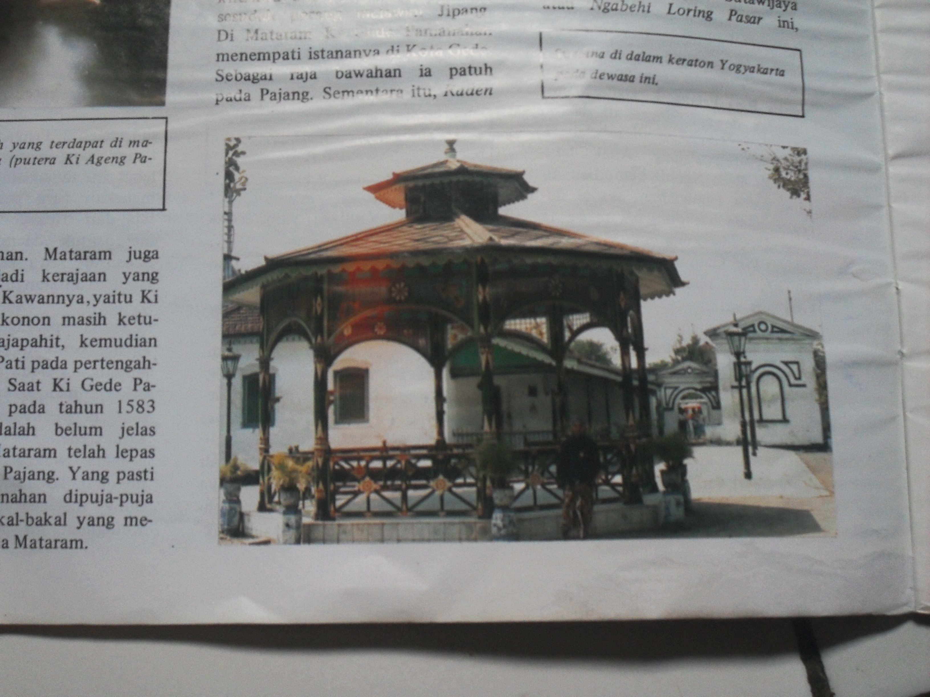 around of keraton ngayogyakarta